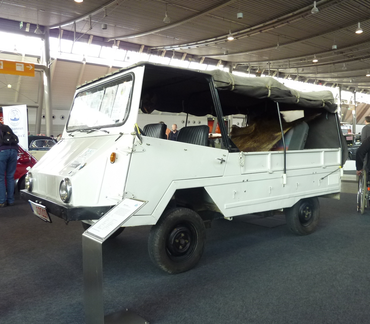 Farmobile left side